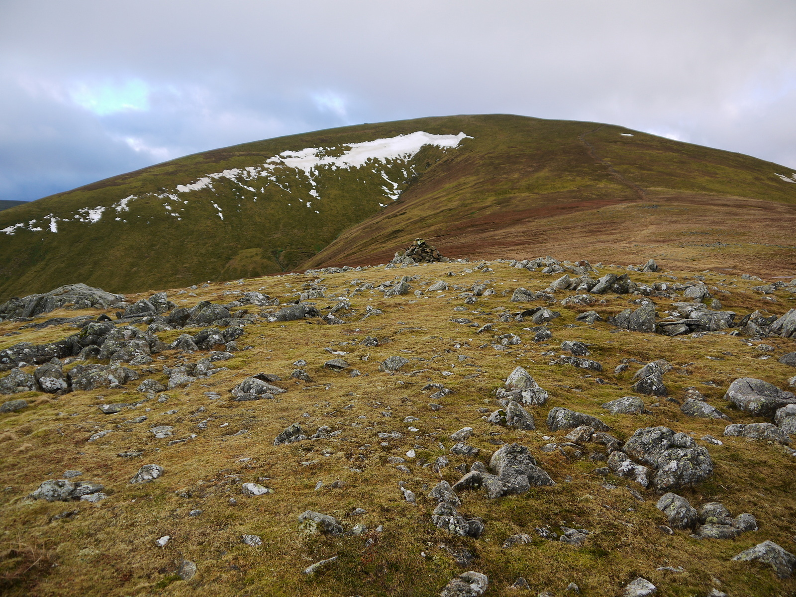 The summit of Great Dodd, seen over Lurgegill Head from Randerside